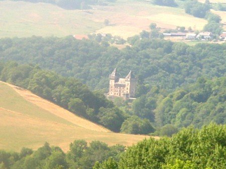 Castle of Messilhac, Raulhac, Cantal, France